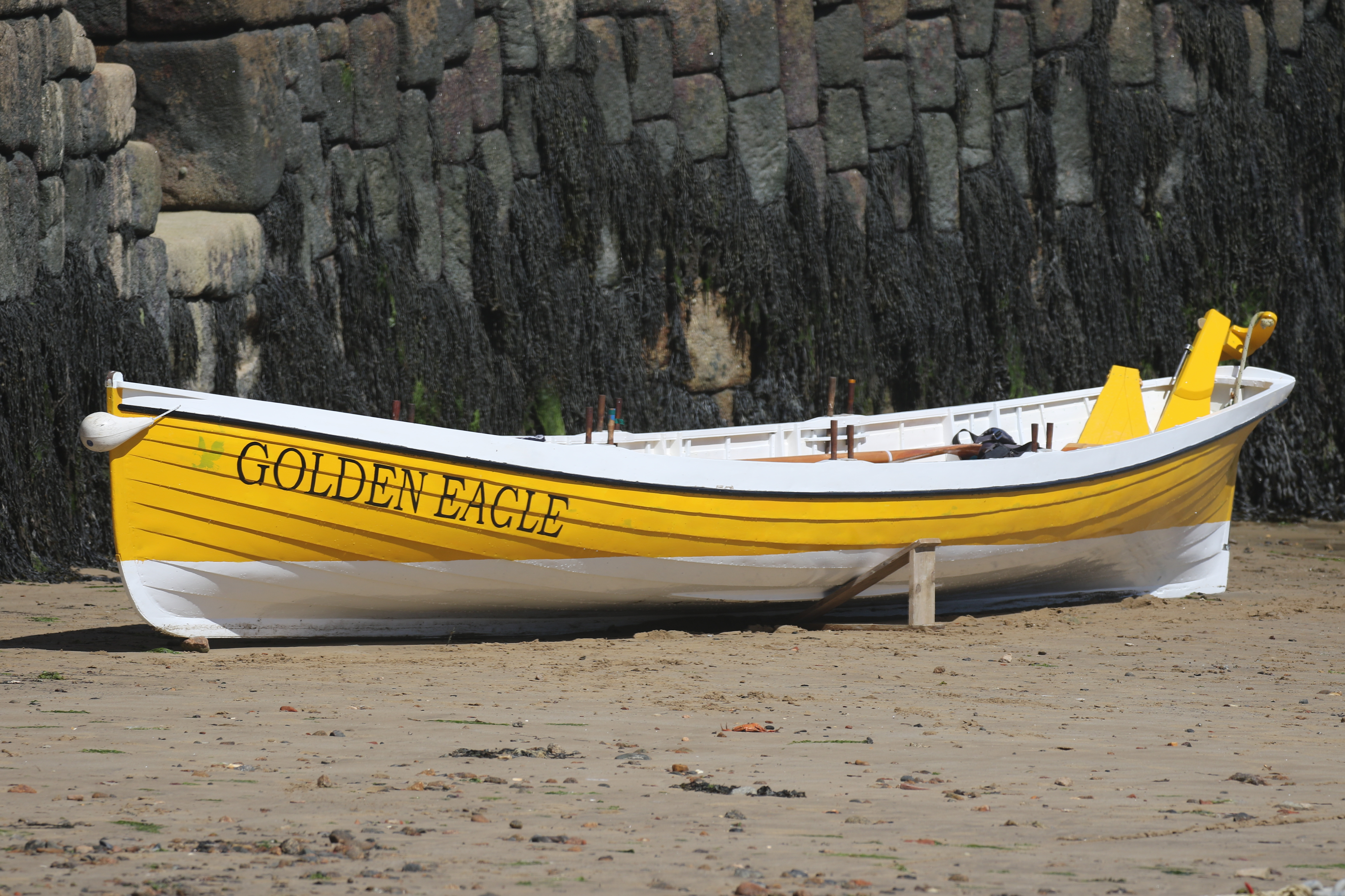 At the World Pilot Gig Championships